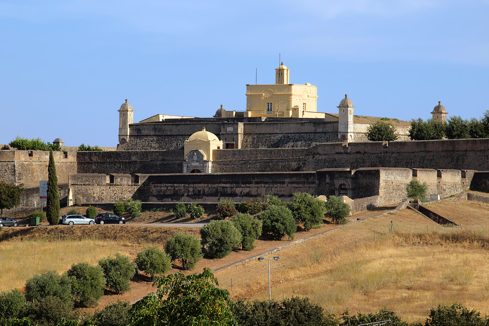 Elvas, Forte de Santa Luzia viewed from Northwest